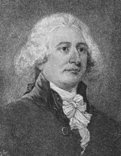 Portrait of Senator John Brown of Kentucky